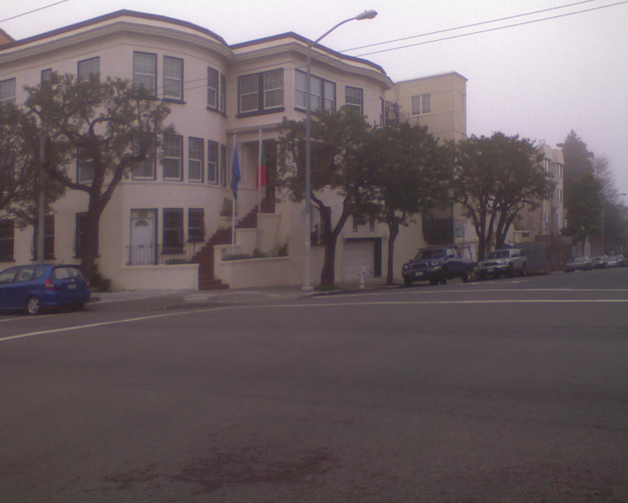 Portuguese Consulate-General in San Francisco